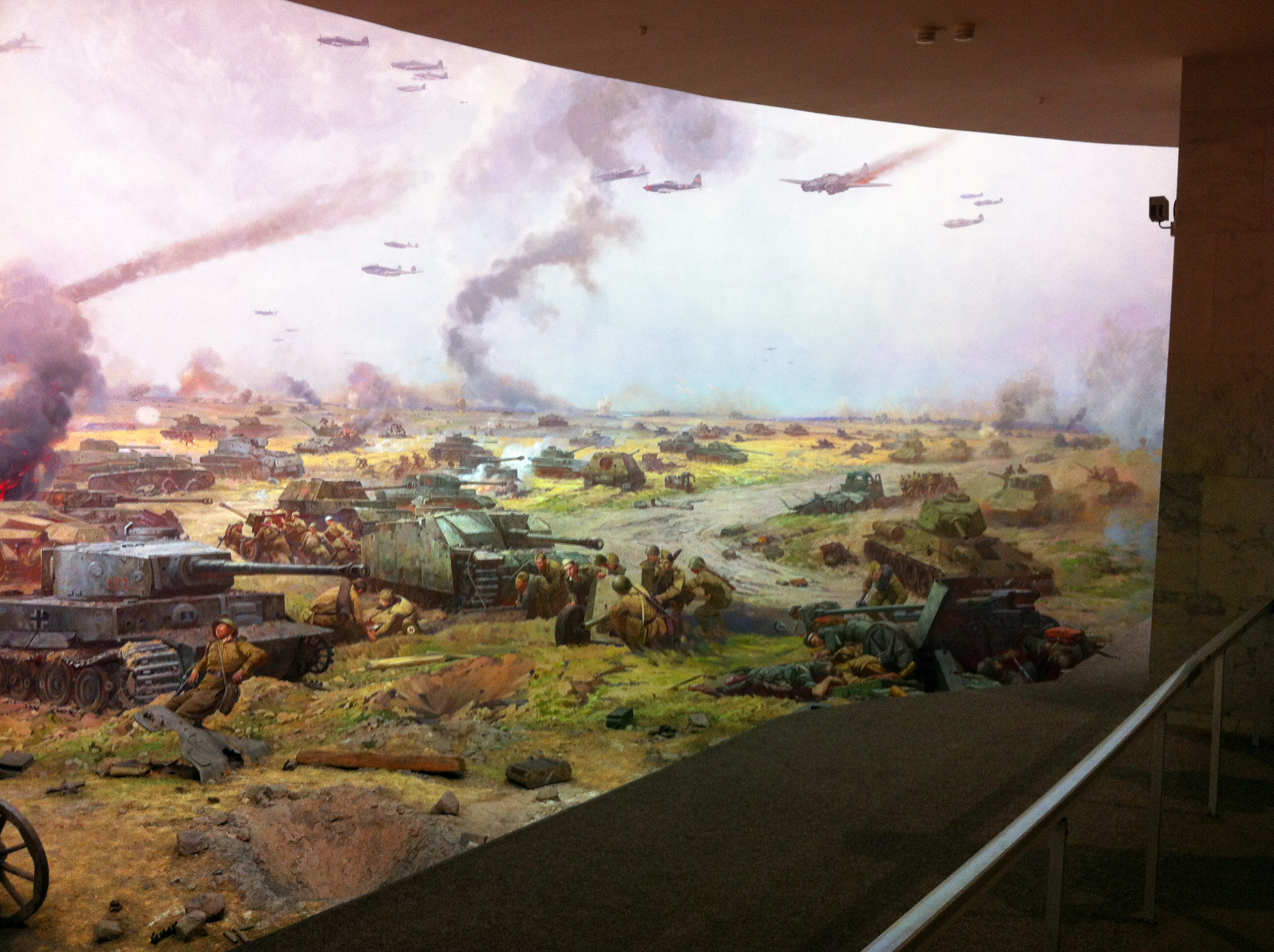 Diorama «Battle of Kursk» of Grekov Studio of Military Art at Museum of the Great Patriotic War in Moscow